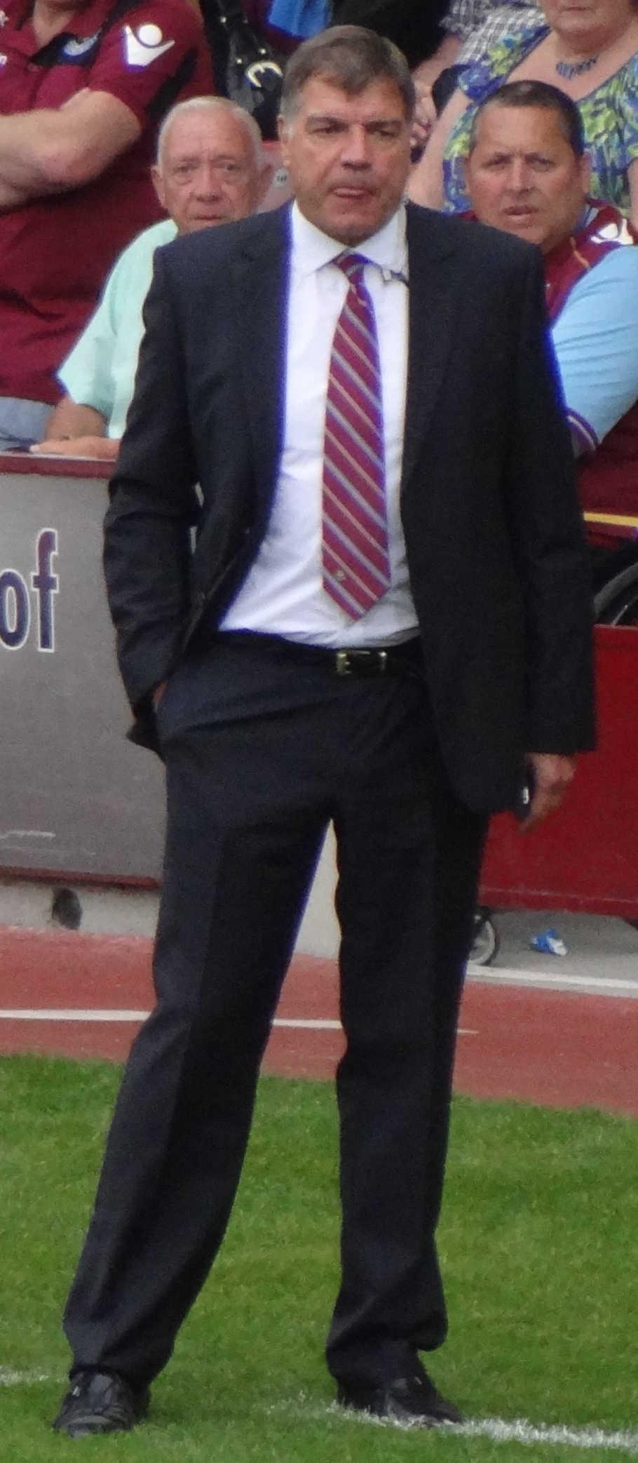 Sam Allardyce, West Ham manager.